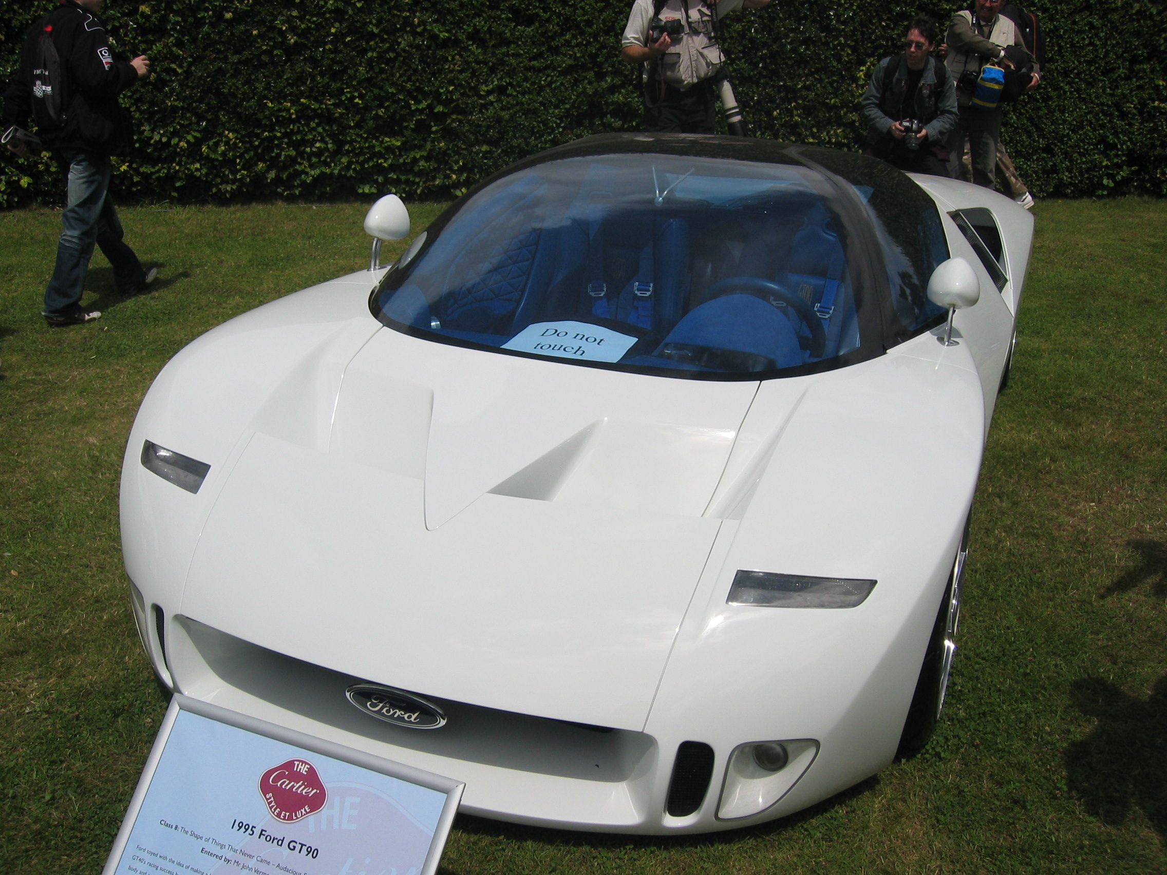 From Goodwood Festival of Speed 2008, Ford GT90